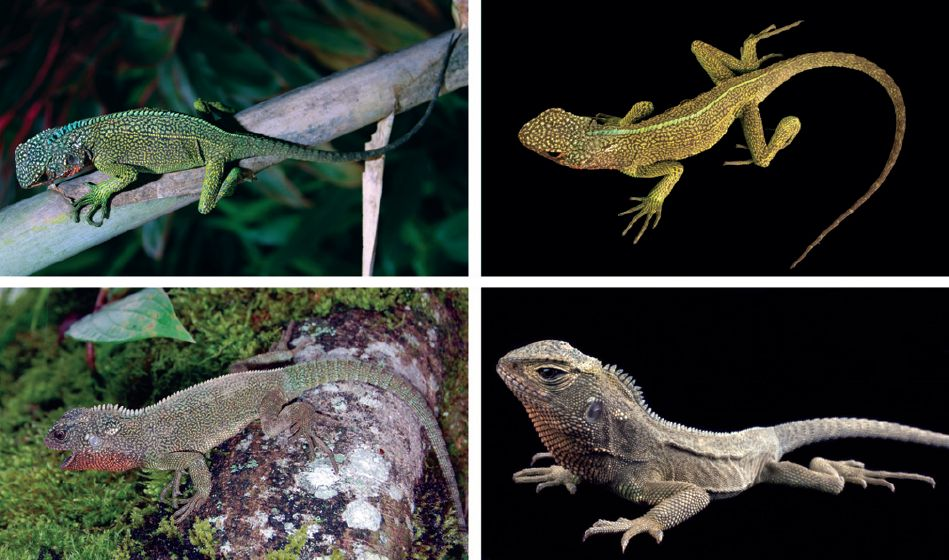 Metachromatism in Enyalioides rubrigularis. Top left and right: adult male (QCAZ 8460); bottom left and right: adult male (QCAZ 8456).